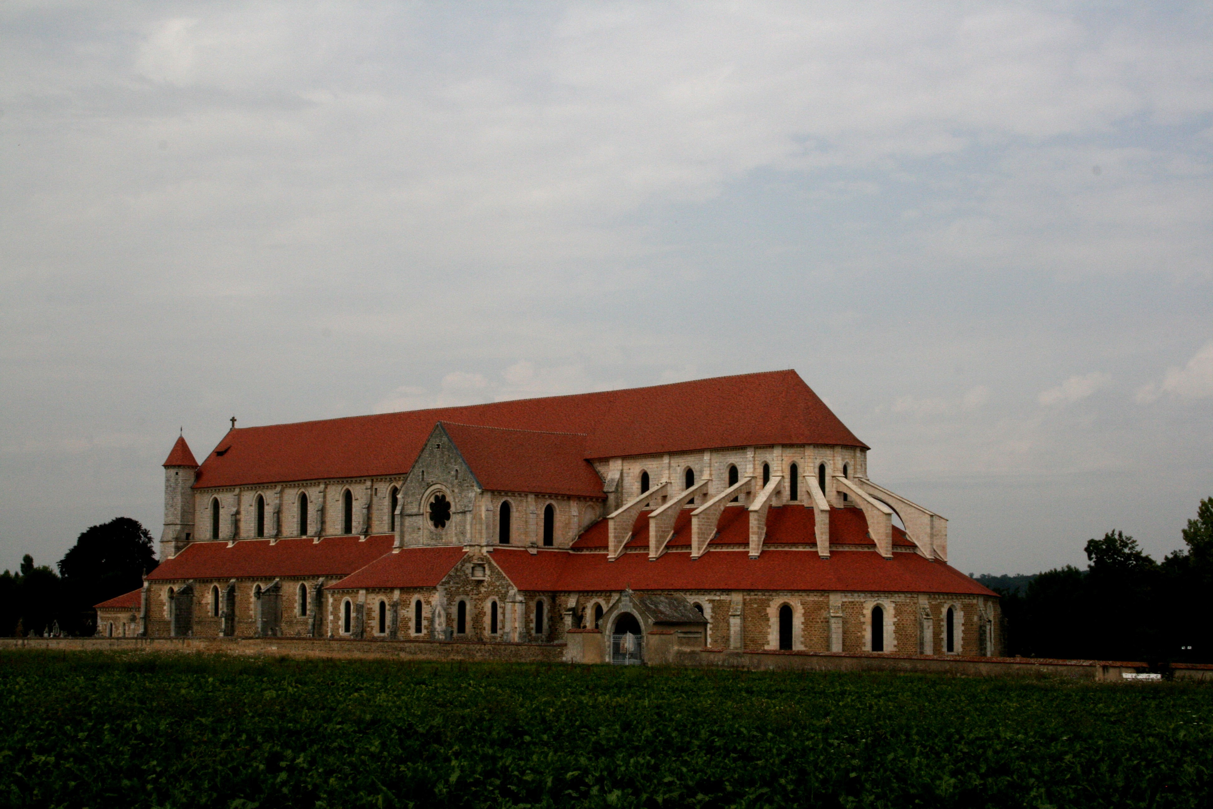 Abbaye de Pontigny, France